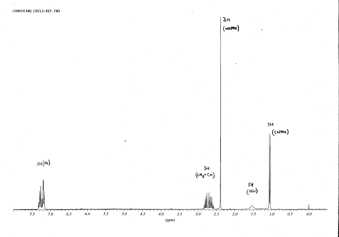 Methamphetamine PMR spectrogram